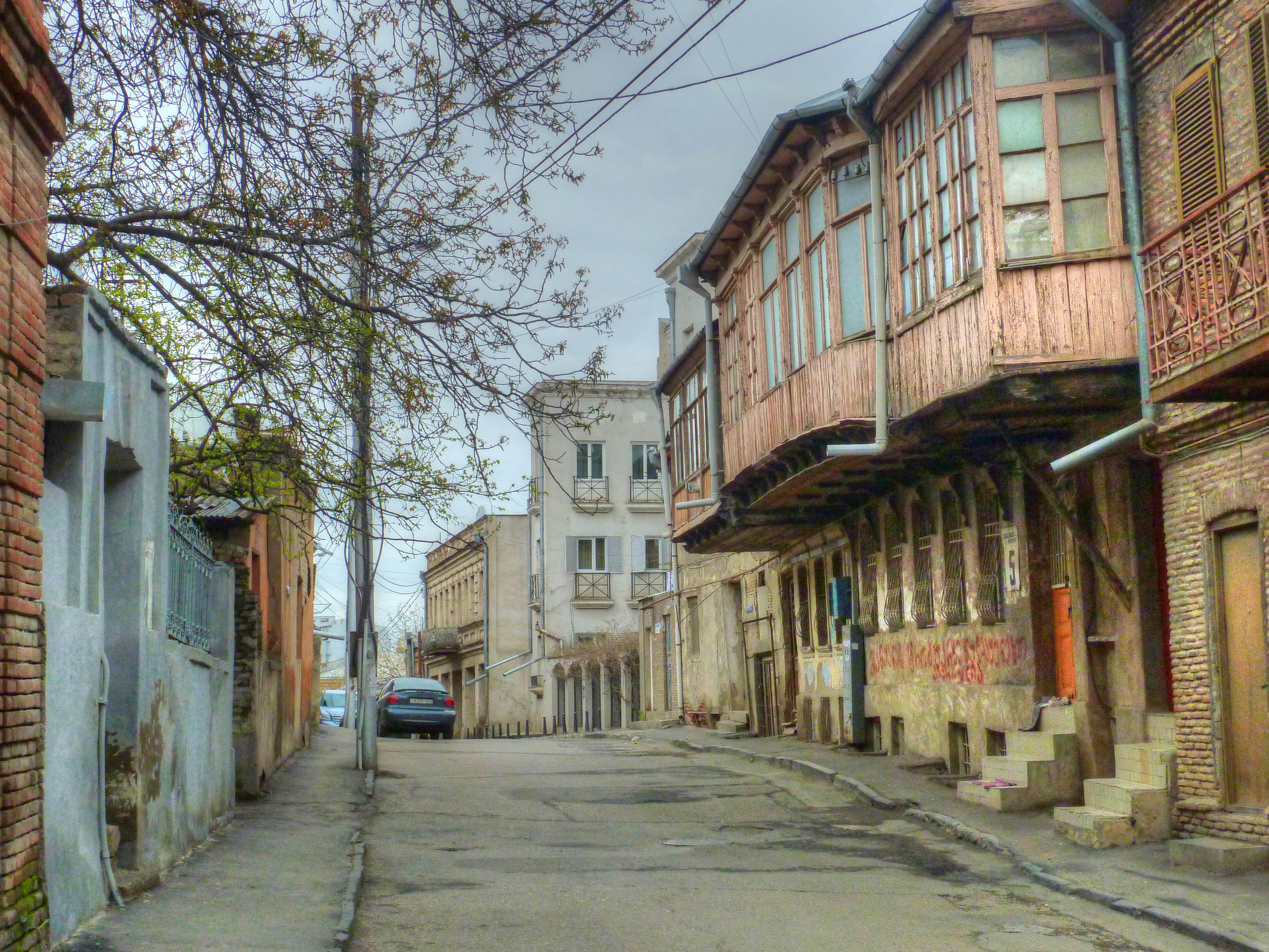 sweet balconies in old Tbilisi 2-)